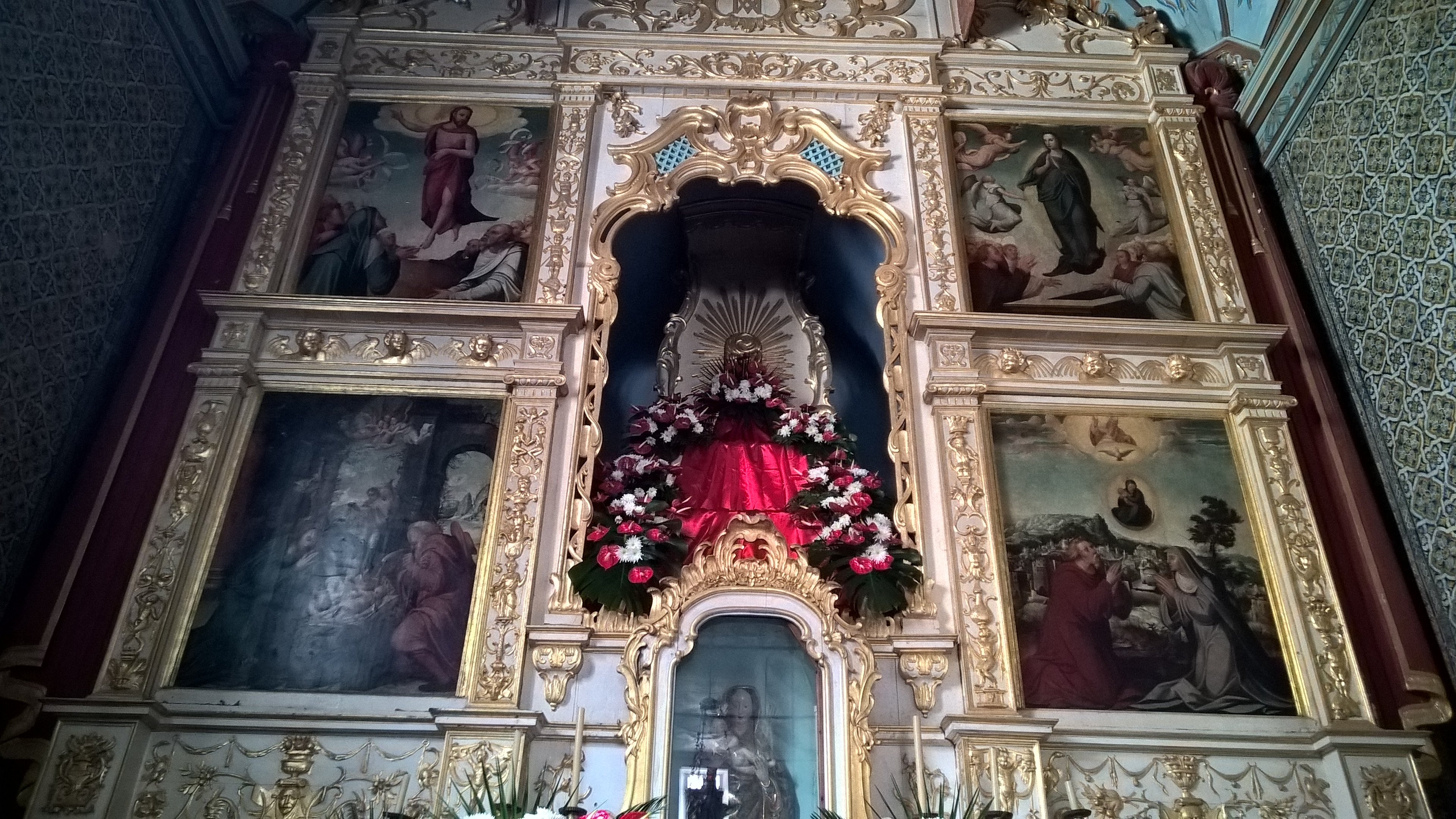 Retábulo do Altar-mor da Igreja Matriz da Ponta do Sol, na Ilha da Madeira